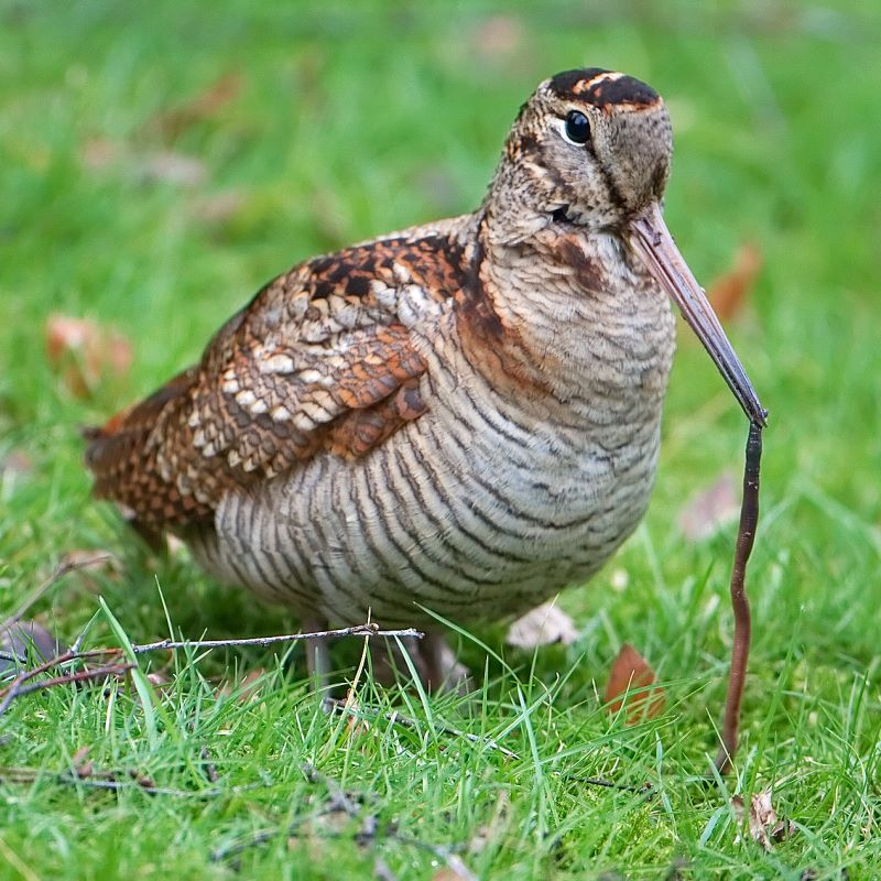 Woodcock